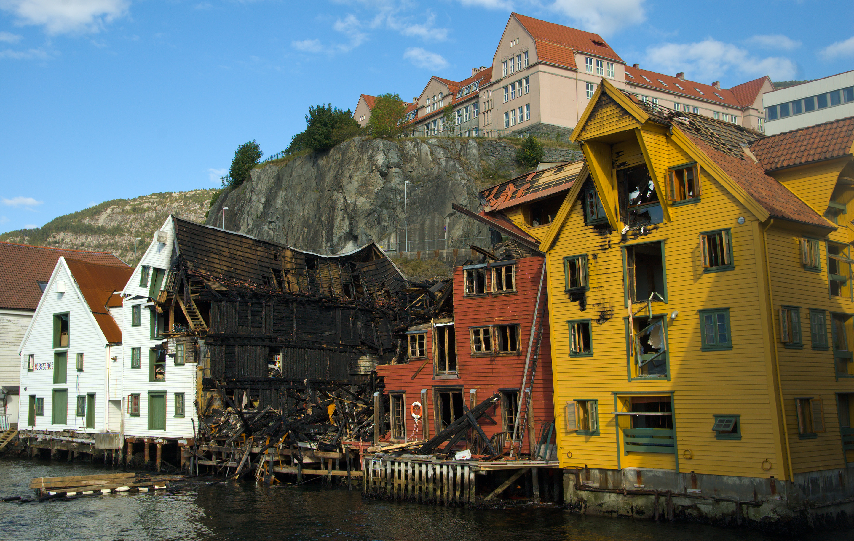 18th and 17th century warehouses in Bergen, Norway, on September 13, 2008, a few days after they burned.